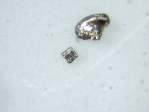 Natural platinum?.